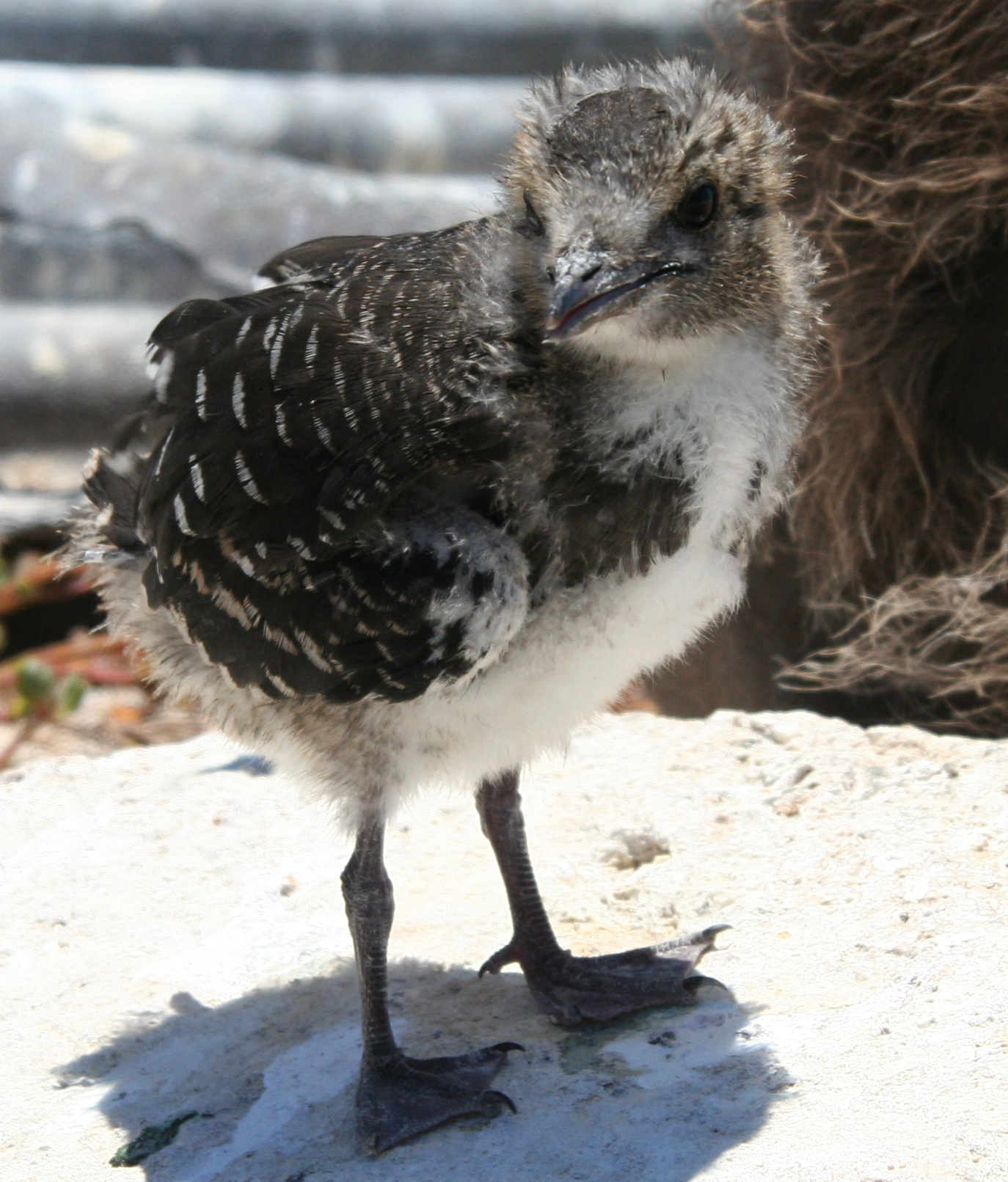 Sooty Tern (Onychoprion fuscatus) chick. On Tern Island, French Frigate Shoals.